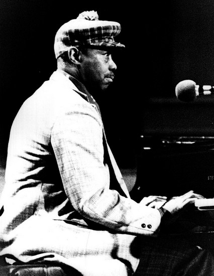 Pianist Pinetop Perkins in Paris, France